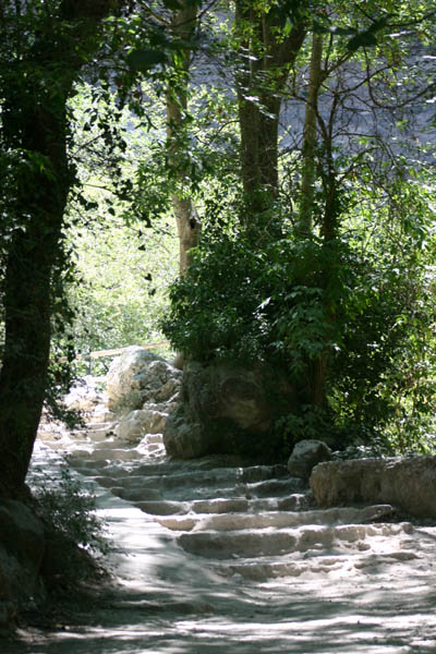 access to the spring "Fontaine de Vaucluse" in France